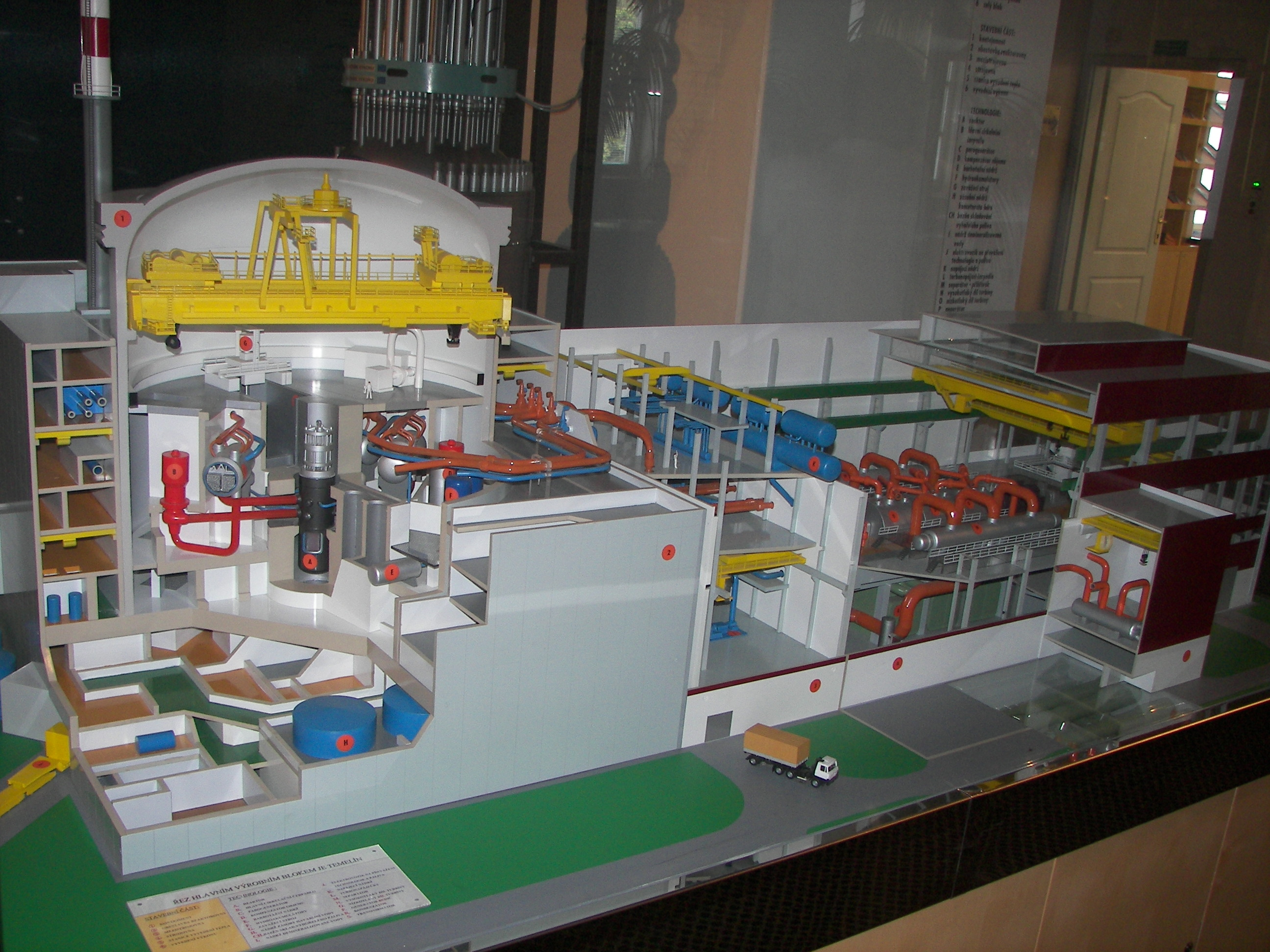 Model of Temelin powerplant in its Information center